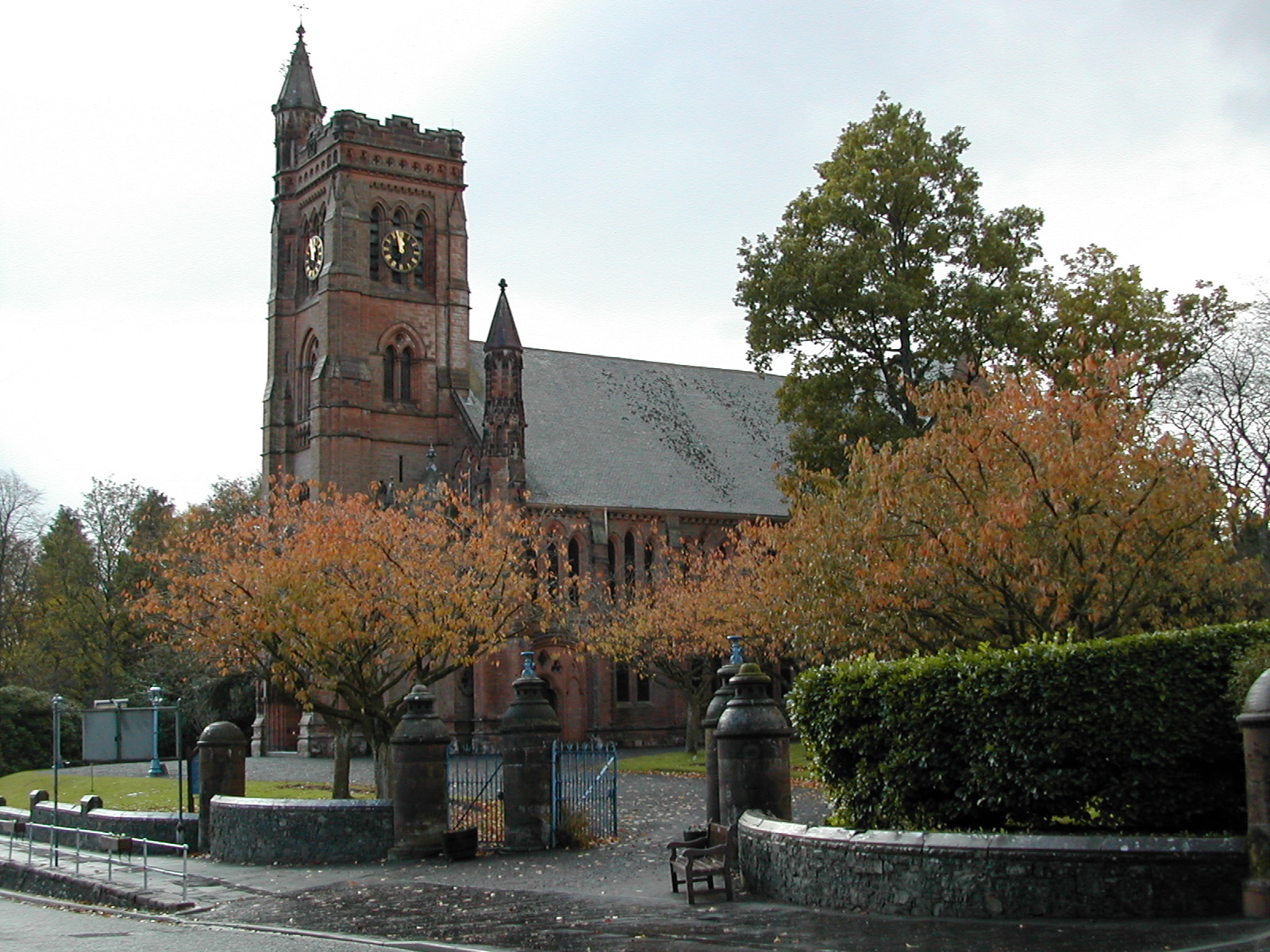 Nom du fichier : DSCN2662.JPG Taille du fichier : 590.9 Ko (605052 octets) Date : 0000/00/00 00:00:00 Taille de l'image : 1600 x 1200 pixels Résolution : 300 x 300 ppp Profondeur en bits : 8 bits/canal Attribut de protection : Désactivé Attribut Masqué : Désactivé ID de l'appareil : N/A Appareil : E775 Mode de qualité : FINE Mode de mesure : Multizones Mode d'exposition : Programme Auto Speed Light : Non Distance Focale : 7.1 mm Vitesse d'obturation : 1/272.5 seconde Ouverture : F3.0 Correction d'exposition : 0 IL Balance des blancs : Auto Objectif : Intégré Mode Synchro-Flash : Premier Rideau Différence d'exposition : N/A Programme Décalable : N/A Sensibilité : Auto Renforcement de la netteté : Auto Type d'image : Couleur Mode Couleur : N/A Saturation : N/A Contrôle Saturation : N/A Compensation des tons : Normal Latitude (GPS) : N/A Longitude (GPS) : N/A Altitude (GPS) : N/A